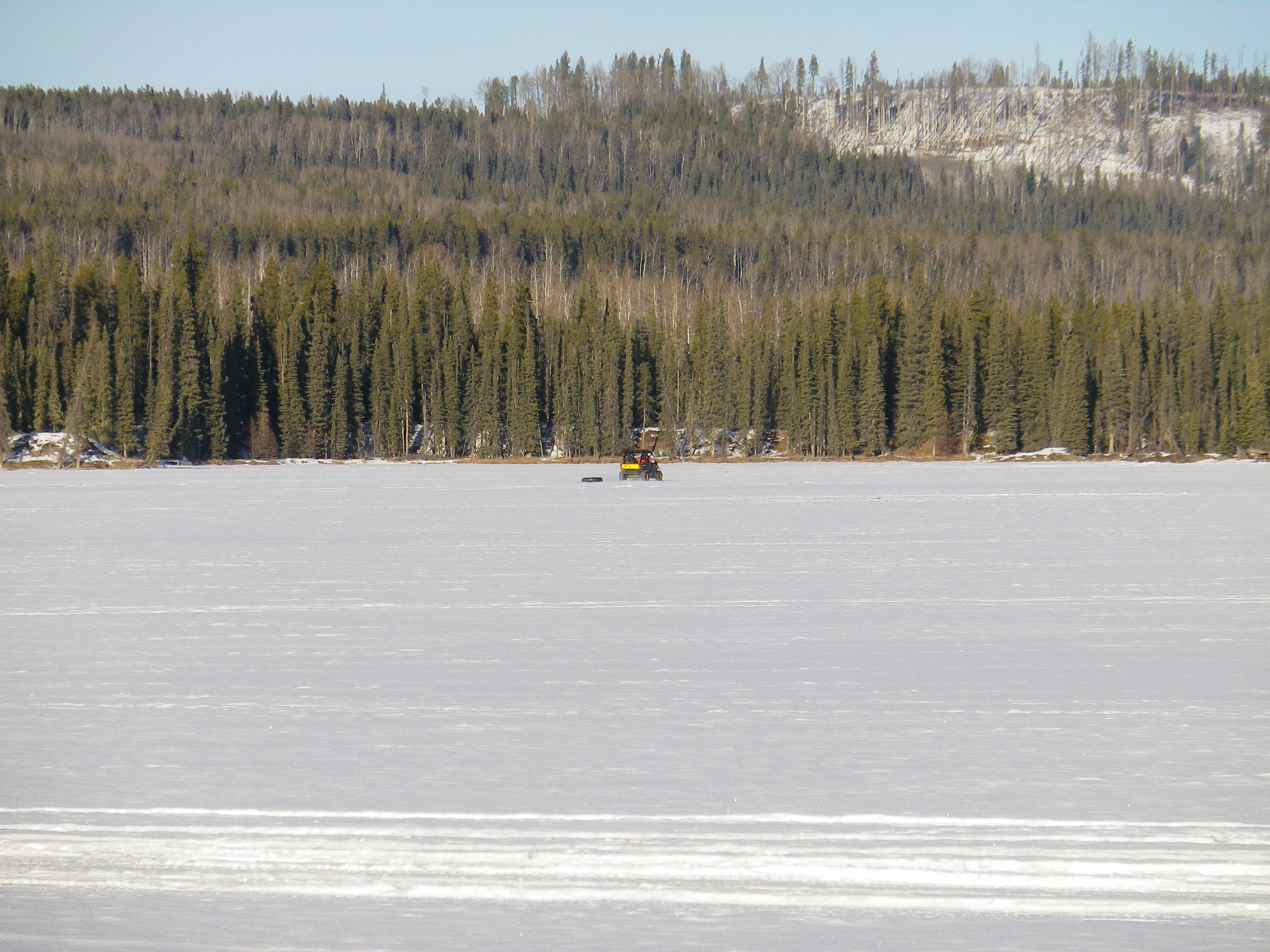 Frozen Gregg Lake with all terrain vehicleon ice in Switzer Provincial Park (Winter) Jan 1, 2016. This photo was taken in a protected area in Canada, Wikidata item William A. Switzer Provincial Park (Q1705615)